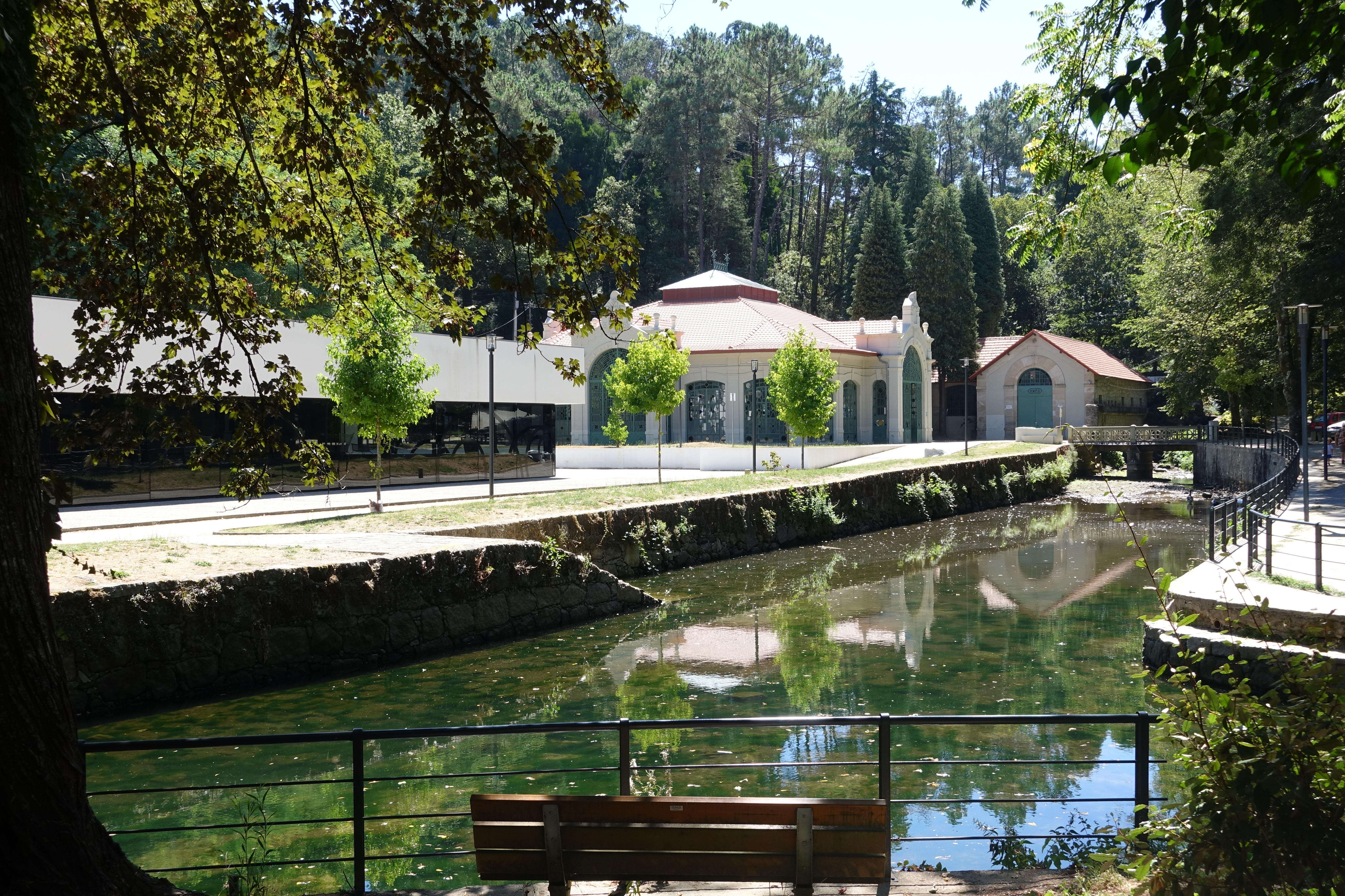 Termas de Melgaço, Portugal.